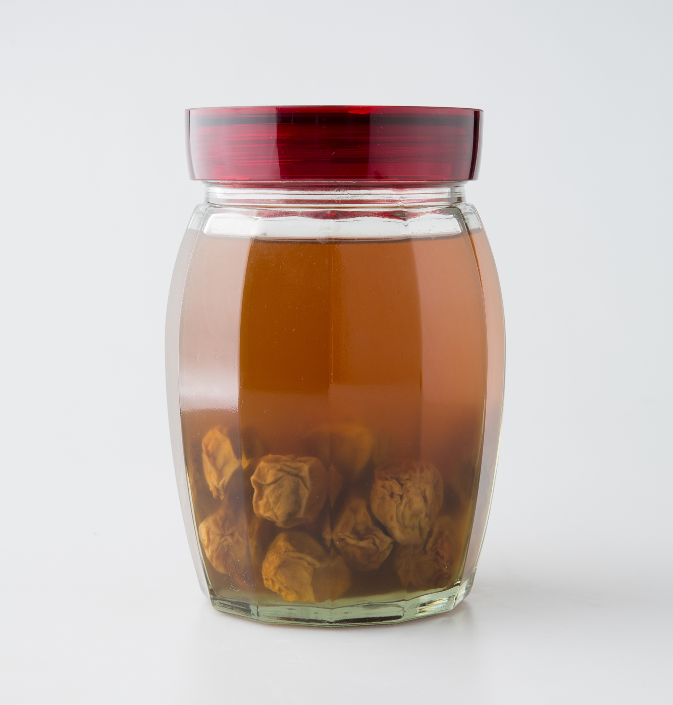 Maesilju, liquor made of plums(Prunus mume)